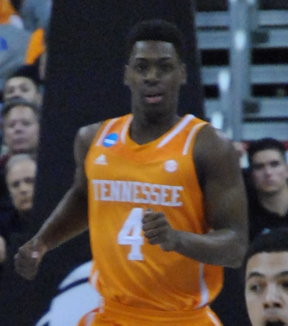 Darius Thompson brings the ball into the paint for the Vols.